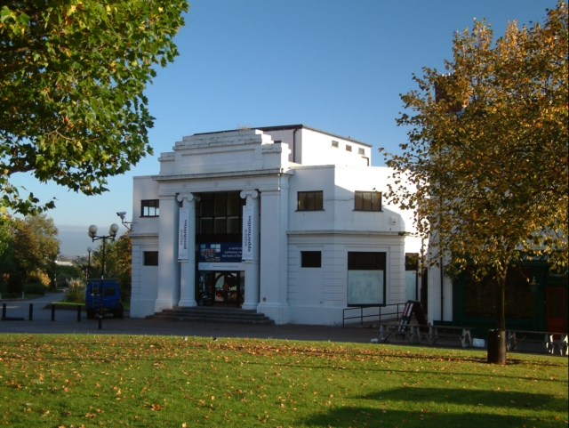 Gosta Green Arts Centre The building, originally a cinema, has had many lives, including being the BBC Midland televison studio.